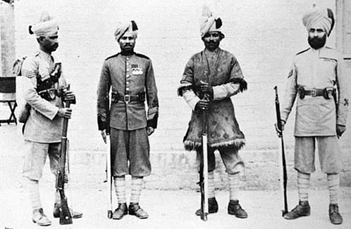 Types of 51st Sikhs (Frontier Force), now 3 Frontier Force, Pakistan Army. ca. 1905.